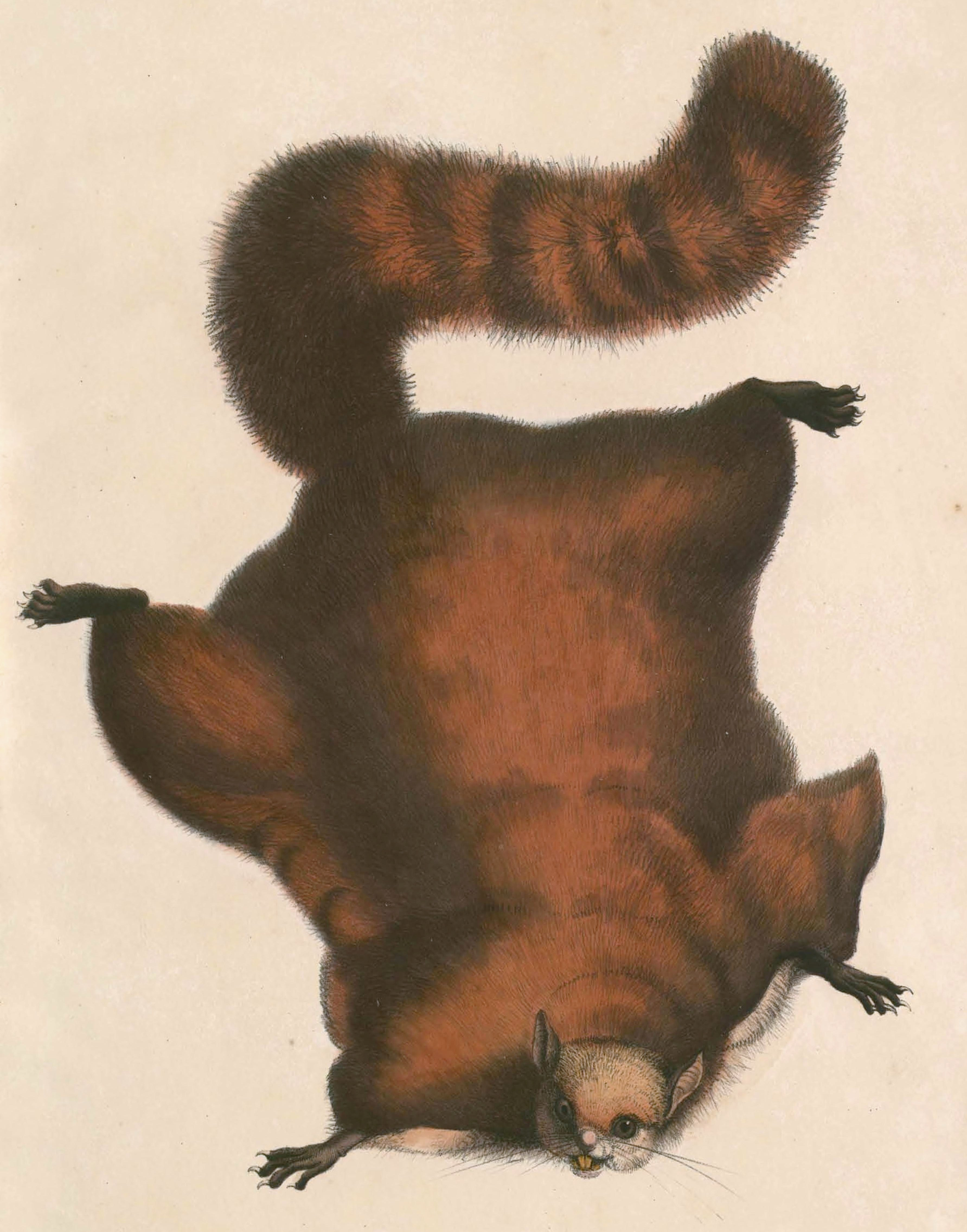 « Pteromys nitidus » = Petaurista petaurista nitida (Subspecies of Red Giant Flying Squirrel)